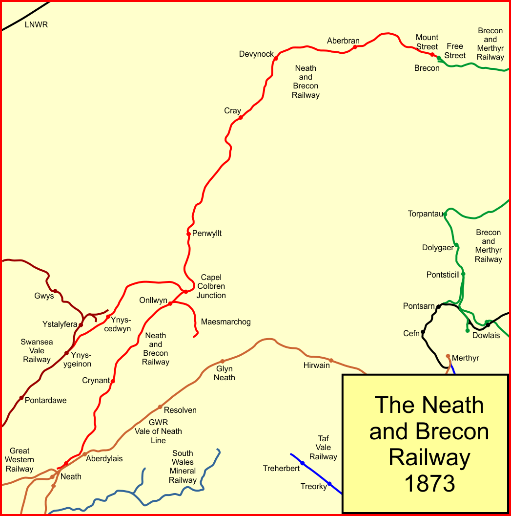 System map of the Neath and Brecon Railway, Wales, in 1873